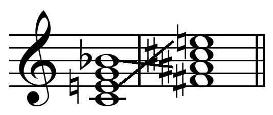 Created by Hyacinth (talk) 15:03, 13 December 2010 using Sibelius 5. Tritone substitution.